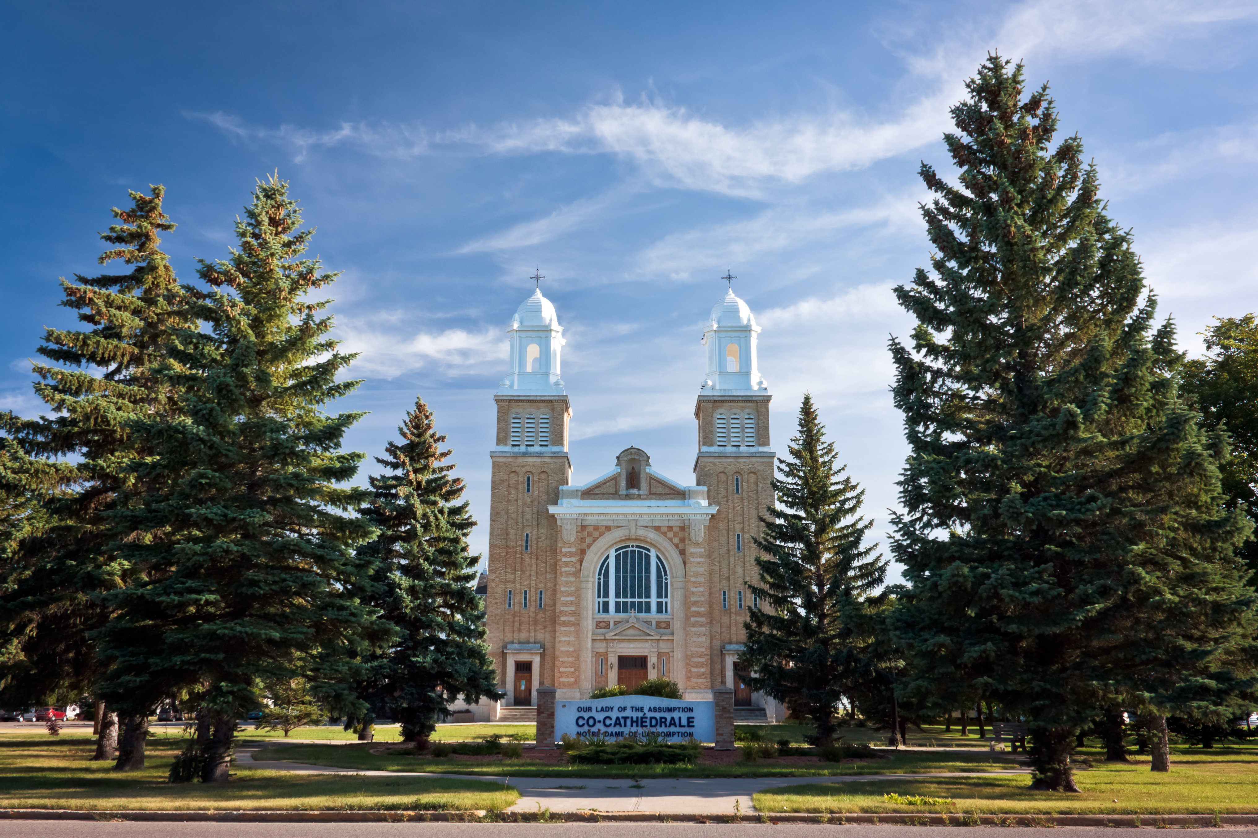 La Cathédrale is a Municipal Heritage Property consisting of approximately half a hectare in the town of Gravelbourg, SK. It was built in AD 1918-1919 and is a French Canadian Catholic Cathedral. The building is a mix of Classical and Romanesque.